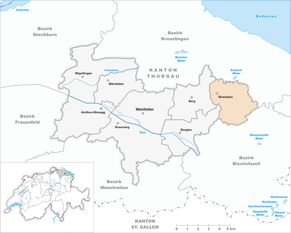 Municipality Birwinken